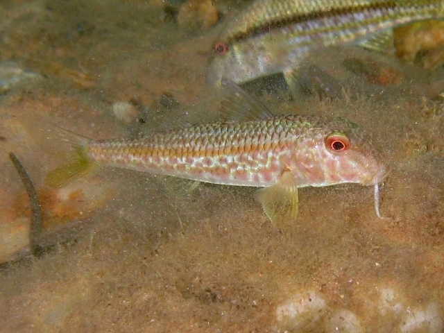 Mullus barbatus photographed in Antiparos, Greece.